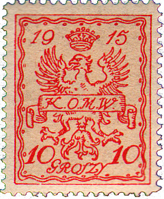 Stamp of the Warsaw Municipal Post